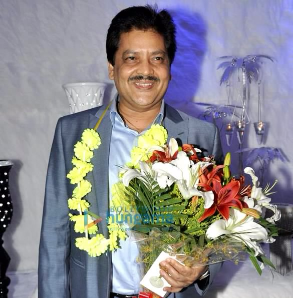 Udit Narayan at Poonam Dhillon's birthday bash and Rohit Verma's fashion show